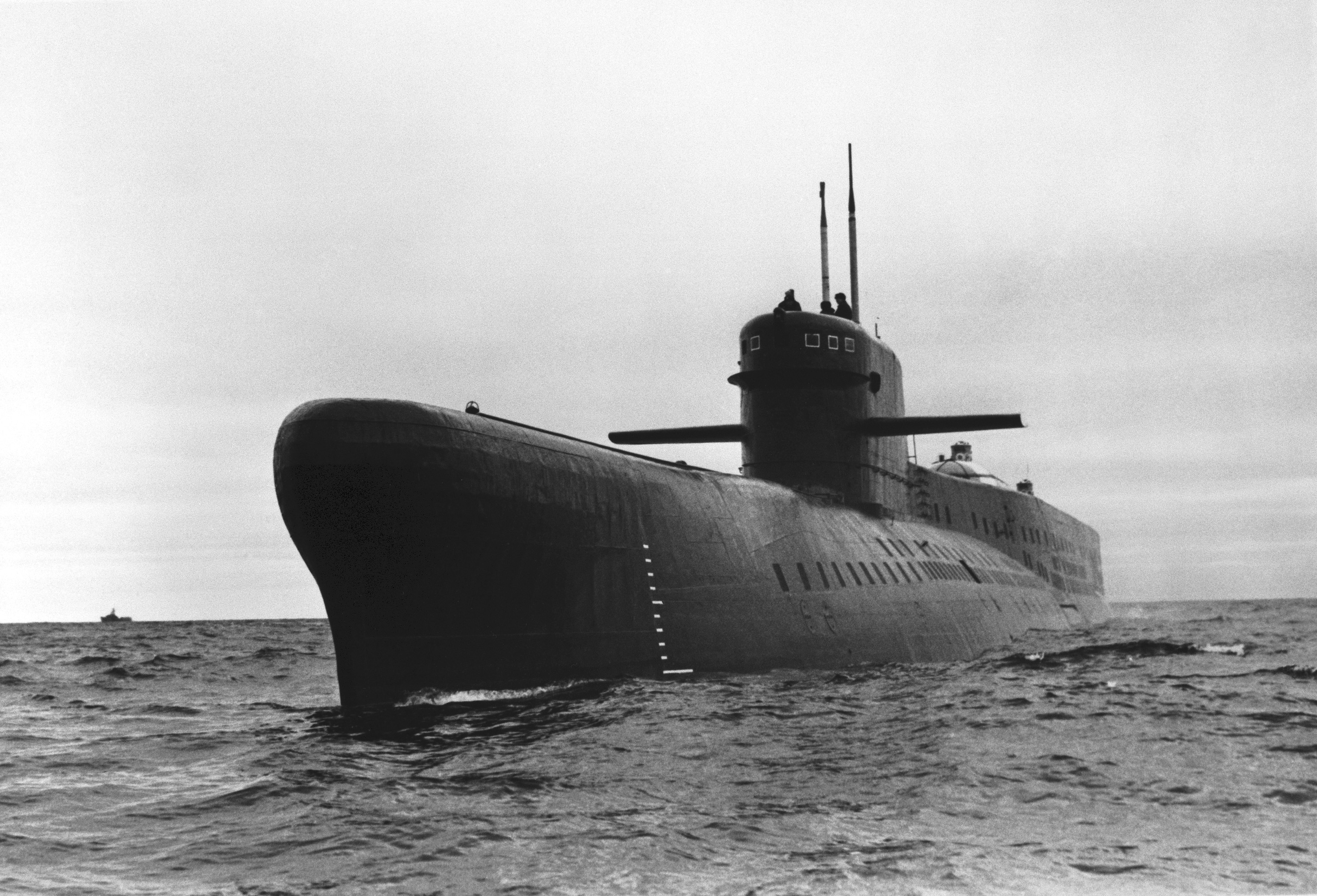 A port bow view of a Soviet India class rescue submarine underway.